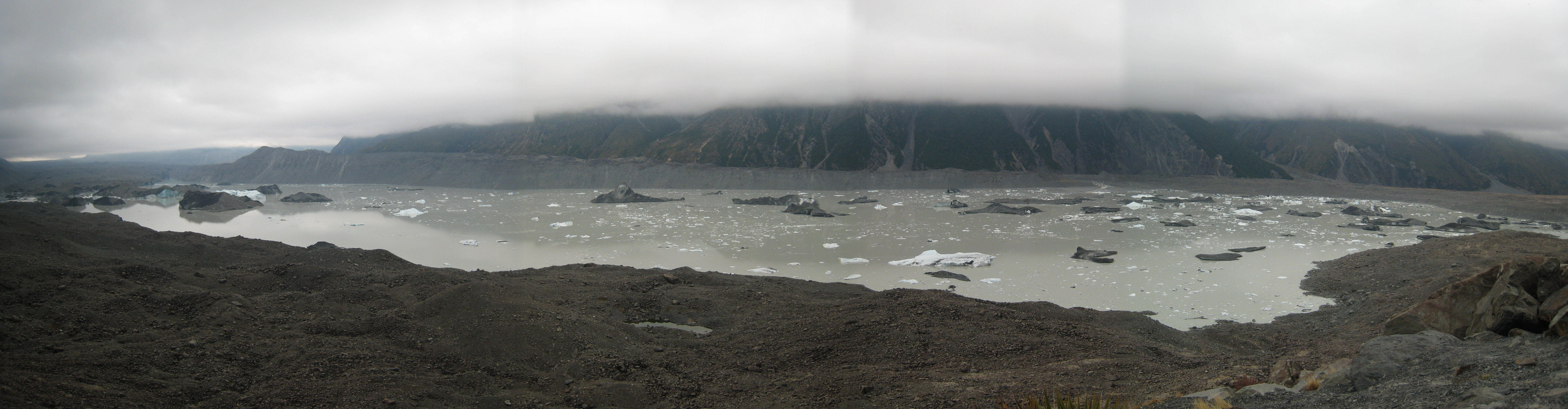 Panoramic view of Tasman Lake